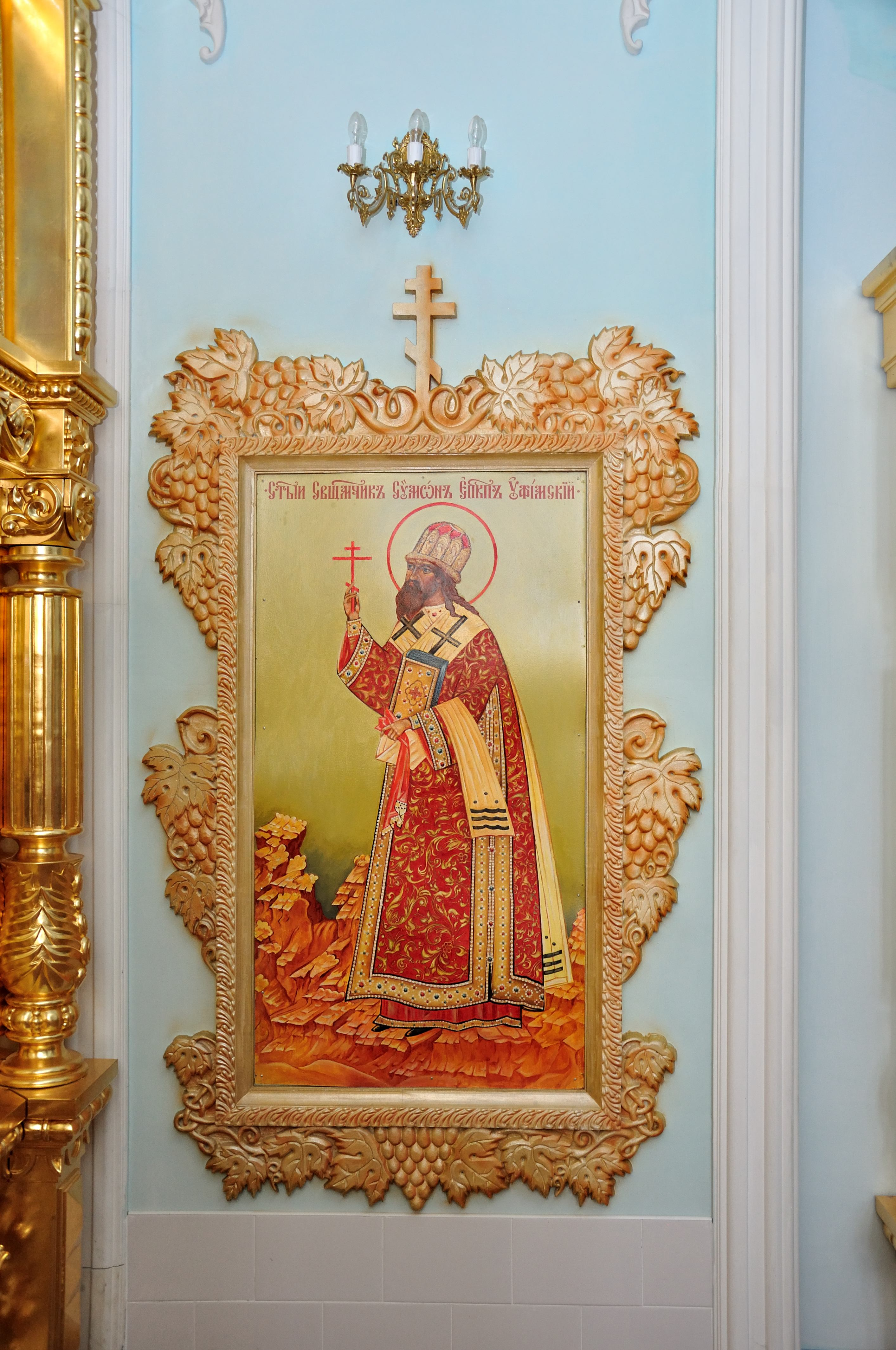 Pokrovsky monastery in Dedovo